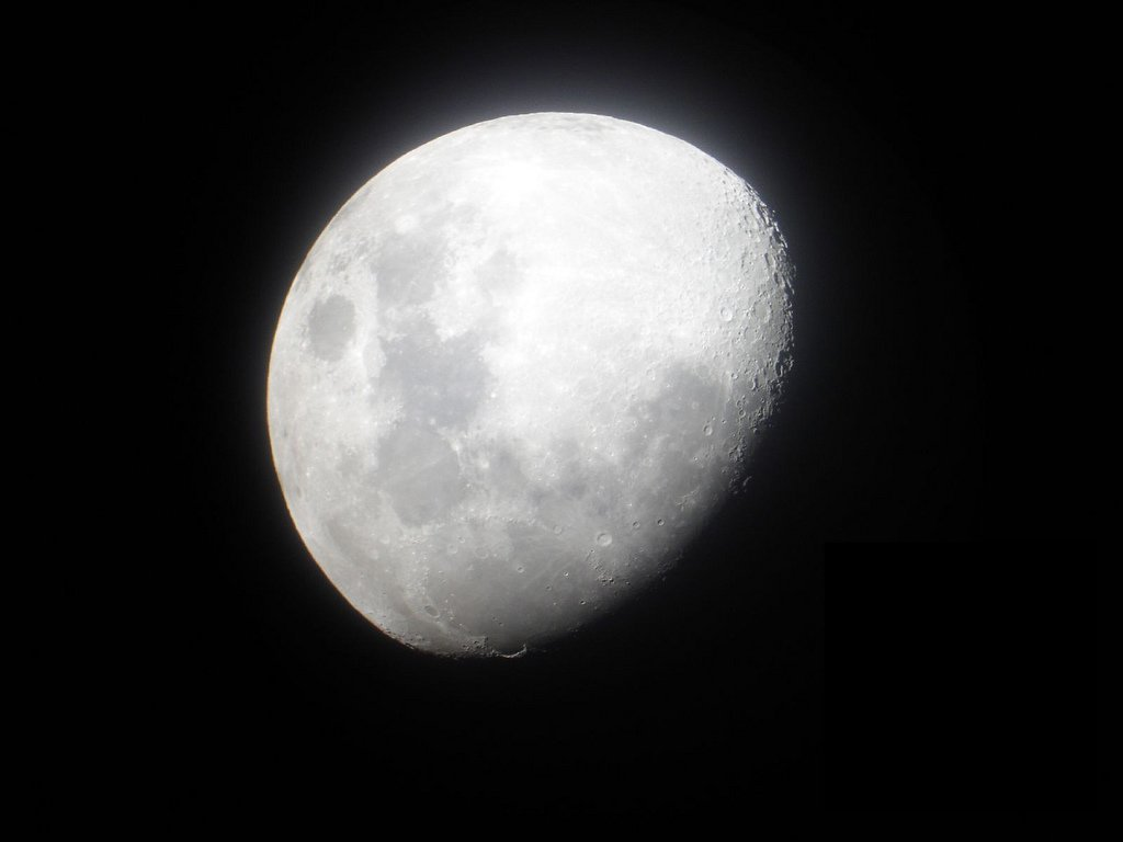 The Moon at night as seen in the south west